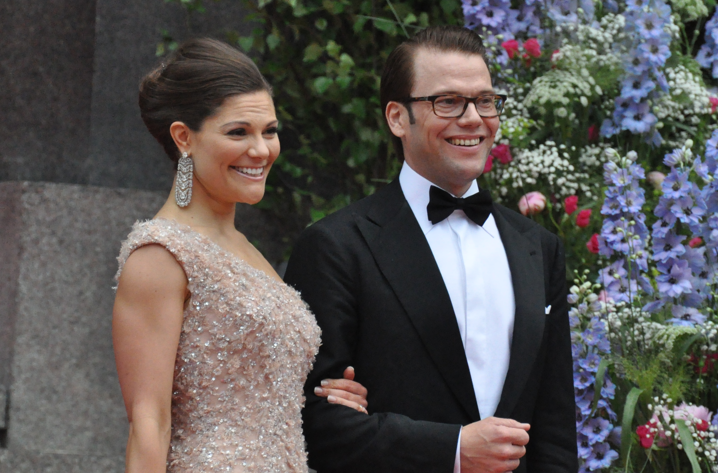 Wedding of Victoria, Crown Princess of Sweden, and Daniel Westling; Arrival to the Riksdag's Gala Performance at Konserthuset: HRH Victoria and Daniel